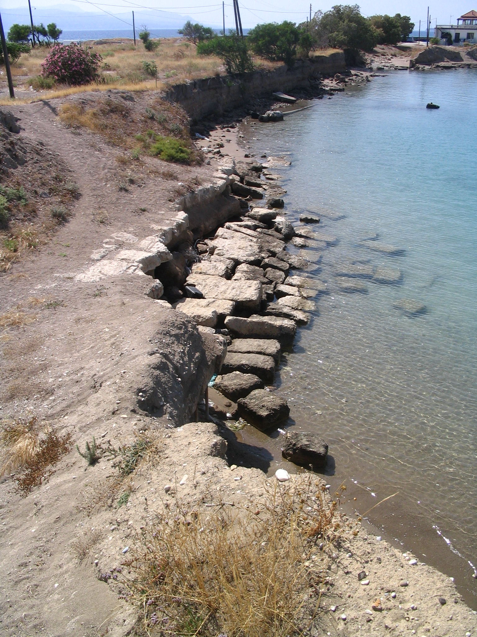 Western end of the ancient Greek ship trackway Diolkos across the Isthmus of Corinth in Greece. Bank erosion of the adjacent Canal of Corinth has damaged the ancient ashlar paving.